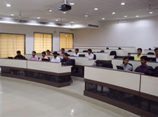 Classroom photo with students